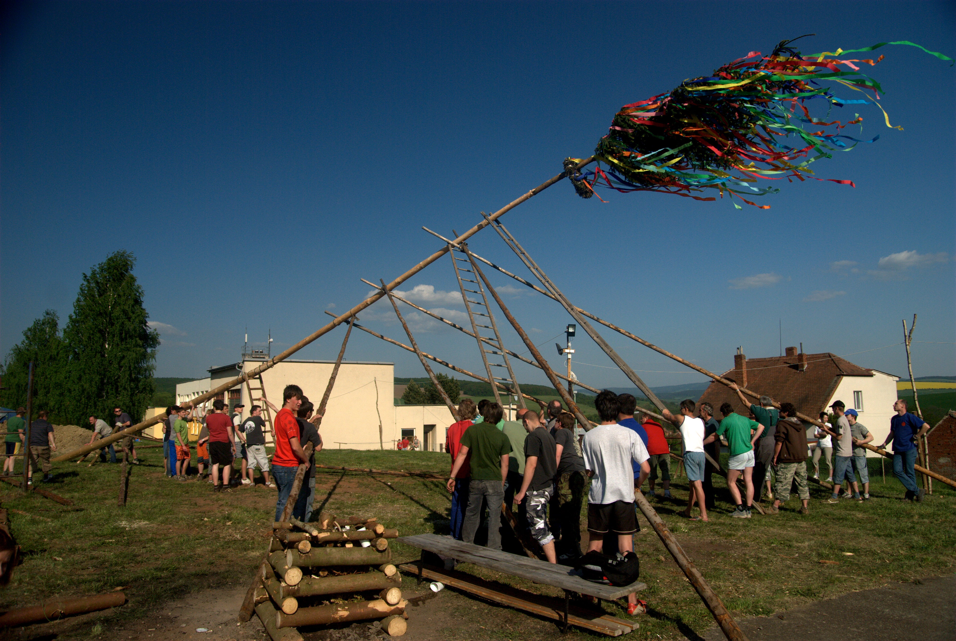 Maypole building in Czech Republic, Uhersky Brod, Ujezdec